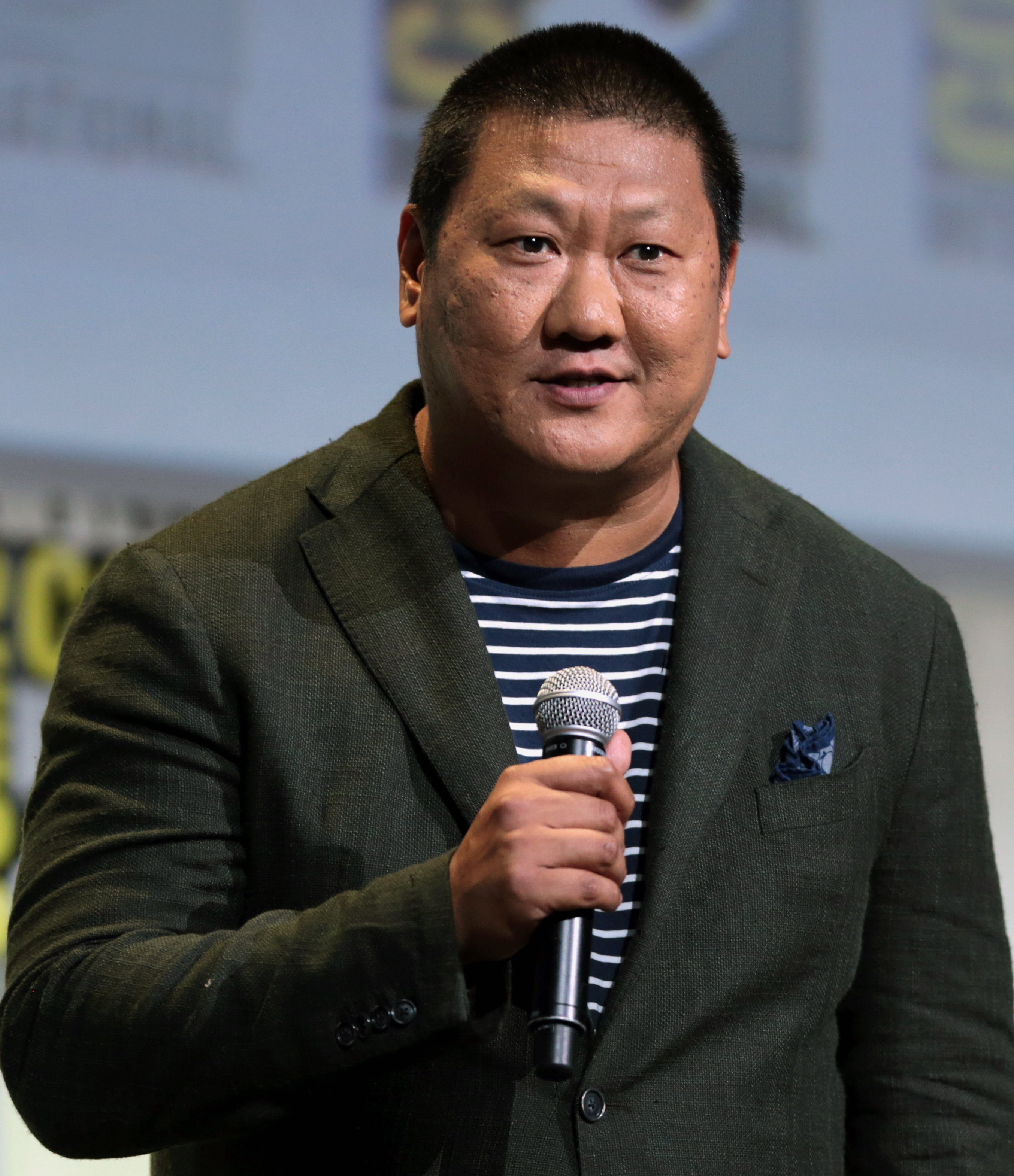 Benedict Wong speaking at the 2016 San Diego Comic Con International, for "Doctor Strange", at the San Diego Convention Center in San Diego, California.